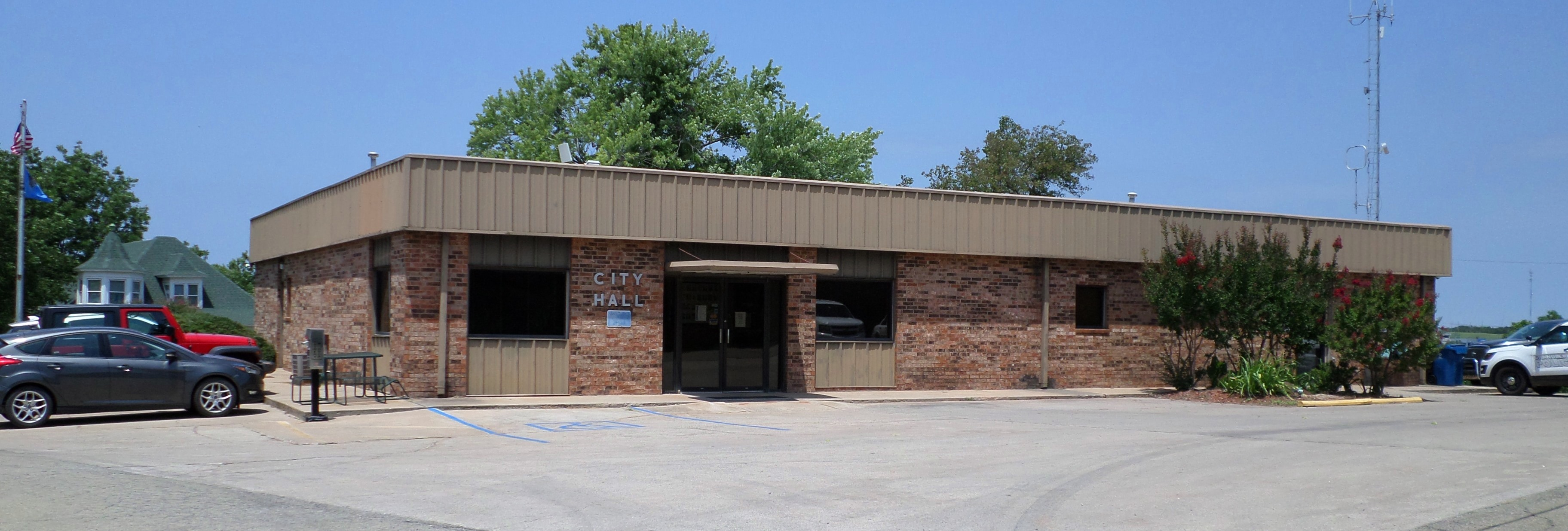 Chandler City Hall, located at 414 Manvel Ave., Chandler, OK.